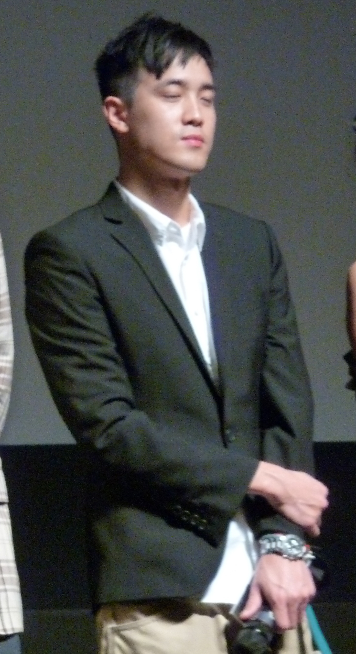 Derek Tsang at the 2010 Hong Kong International Film Festival